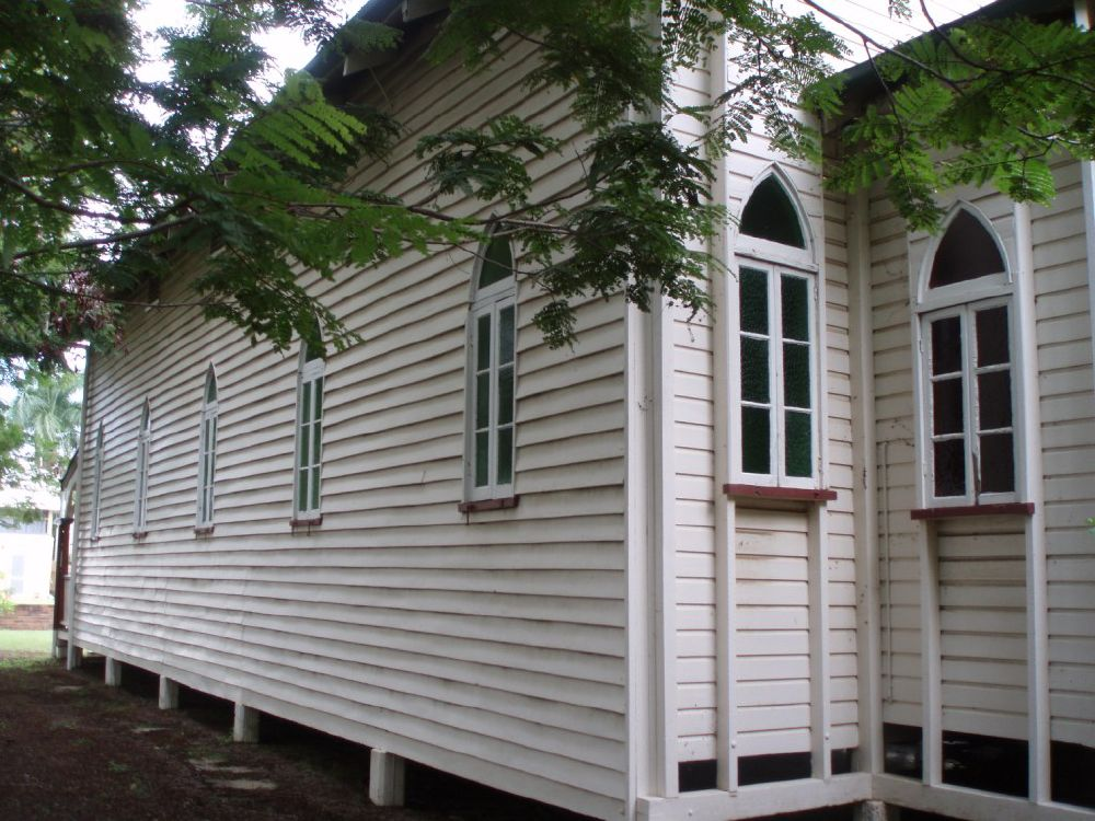 St Marks Church (2009) - side view